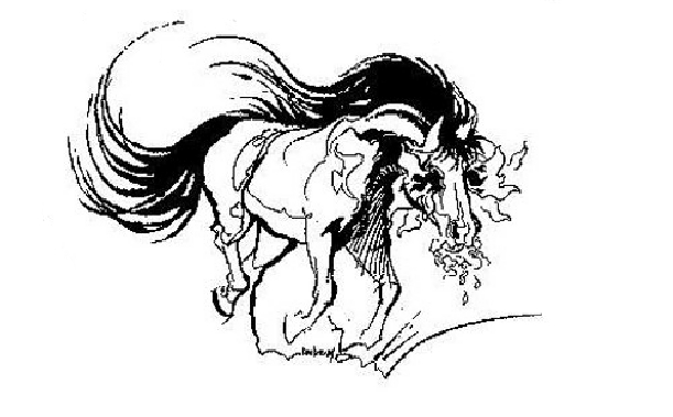 Summary of a legend of the folklore of Argentine on fantastic animal of popular belief in that country